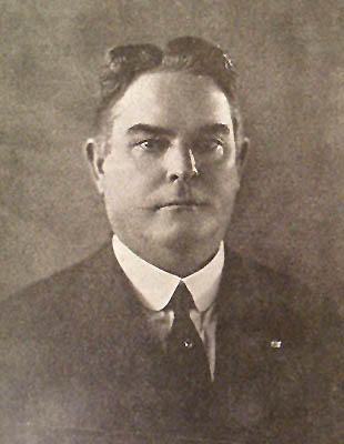 Photo of Louisiana Governor Oramel H. Simpson.